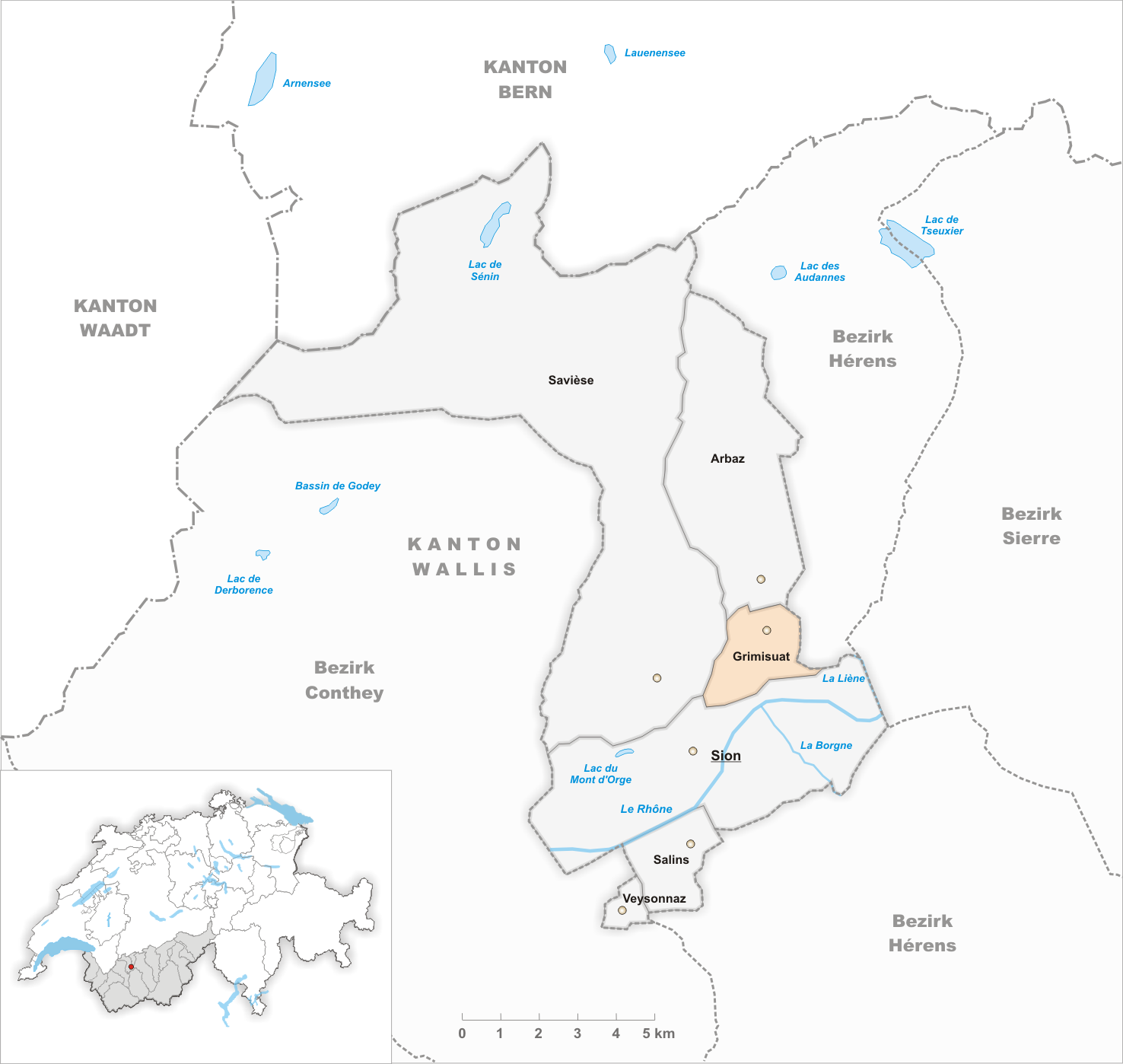 Municipality Grimisuat